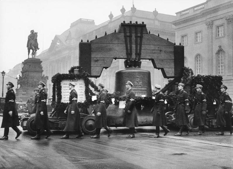 Berlin Olympiaglocke 1936